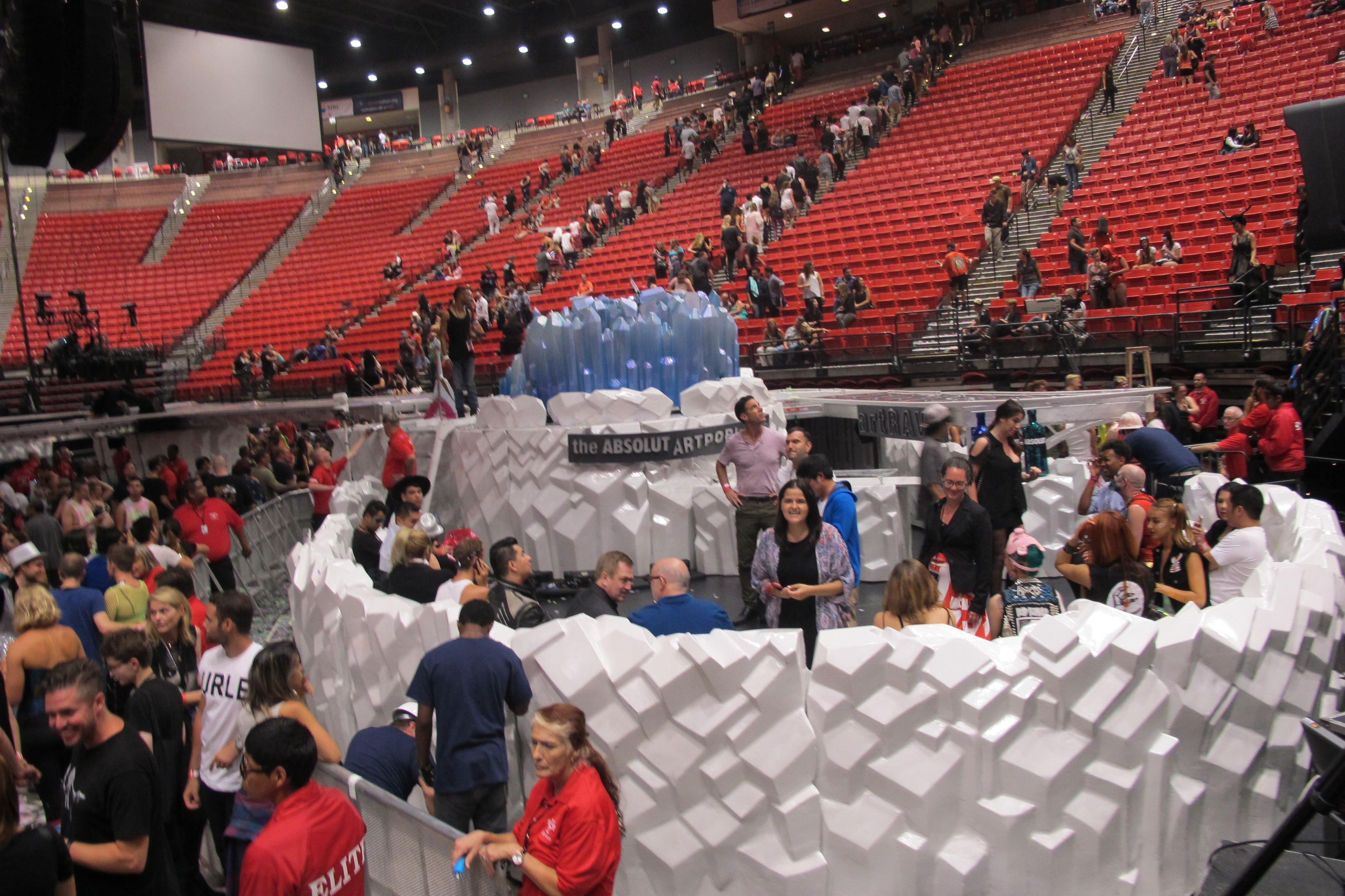 IMG_8341 Lady Gaga performing at ArtRave: The Artpop Ball of San Diego